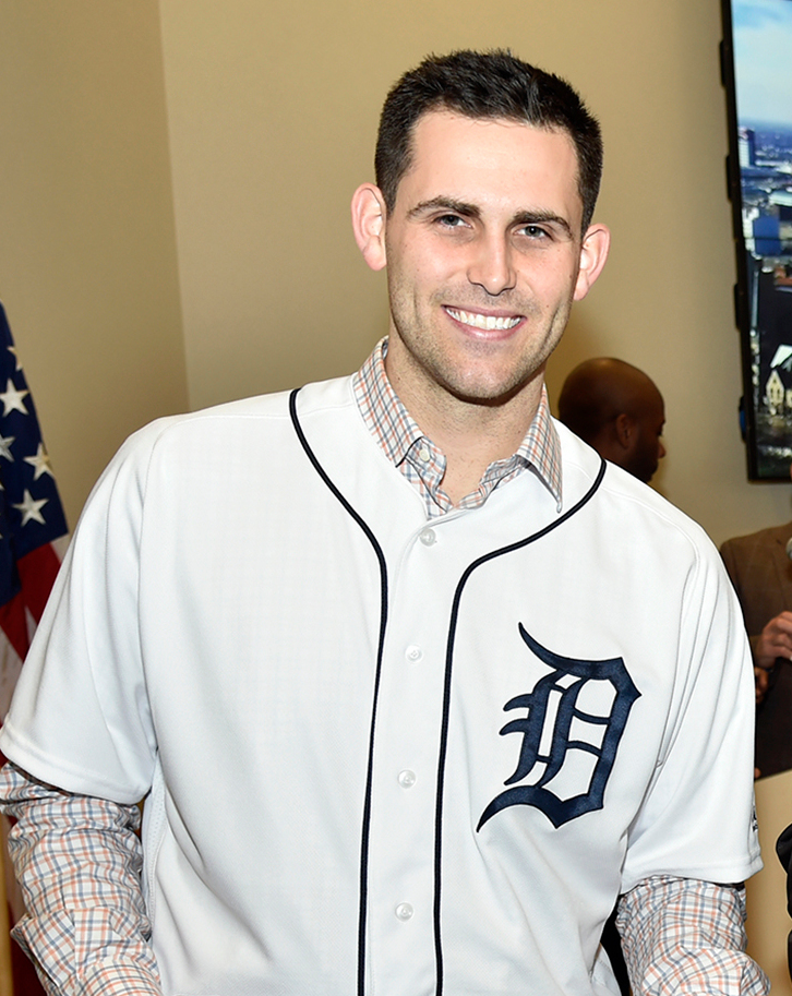 SELFRIDGE AIR NATIONAL GUARD BASE, MI, UNITED STATES 01.25.2019 Photo by Master Sgt. David Kujawa 127th Wing Public Affairs Subscribe 15 SELFRIDGE AIR NATIONAL GUARD BASE, Mich.- Brig. Gen. John D. Slocum, commanding officer, 127th Wing, accepts an autographed baseball bat on behalf of the Wing from Detroit Tigers pitcher Matthew Boyd during a visit to Selfridge Air National Guard Base on Jan. 25, 2019. The Tigers were making their annual winter swing around the Detroit region and paid a call on military personnel at Selfridge. The Tigers personnel were briefed on some of the mission capabilities of the personnel at Selfridge, including a walk around of an A-10 Thunderbolt II aircraft at the base.